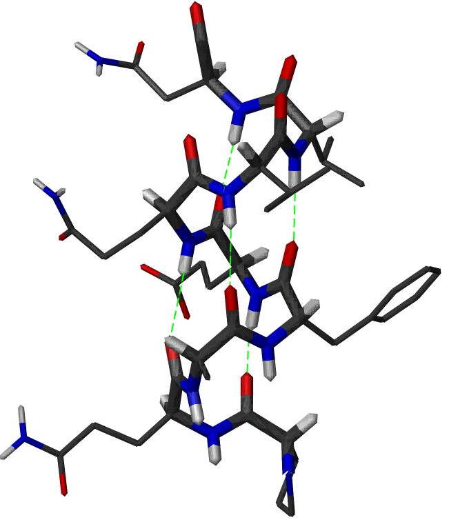 Alpha helix showing side chains and hydrogen bonds